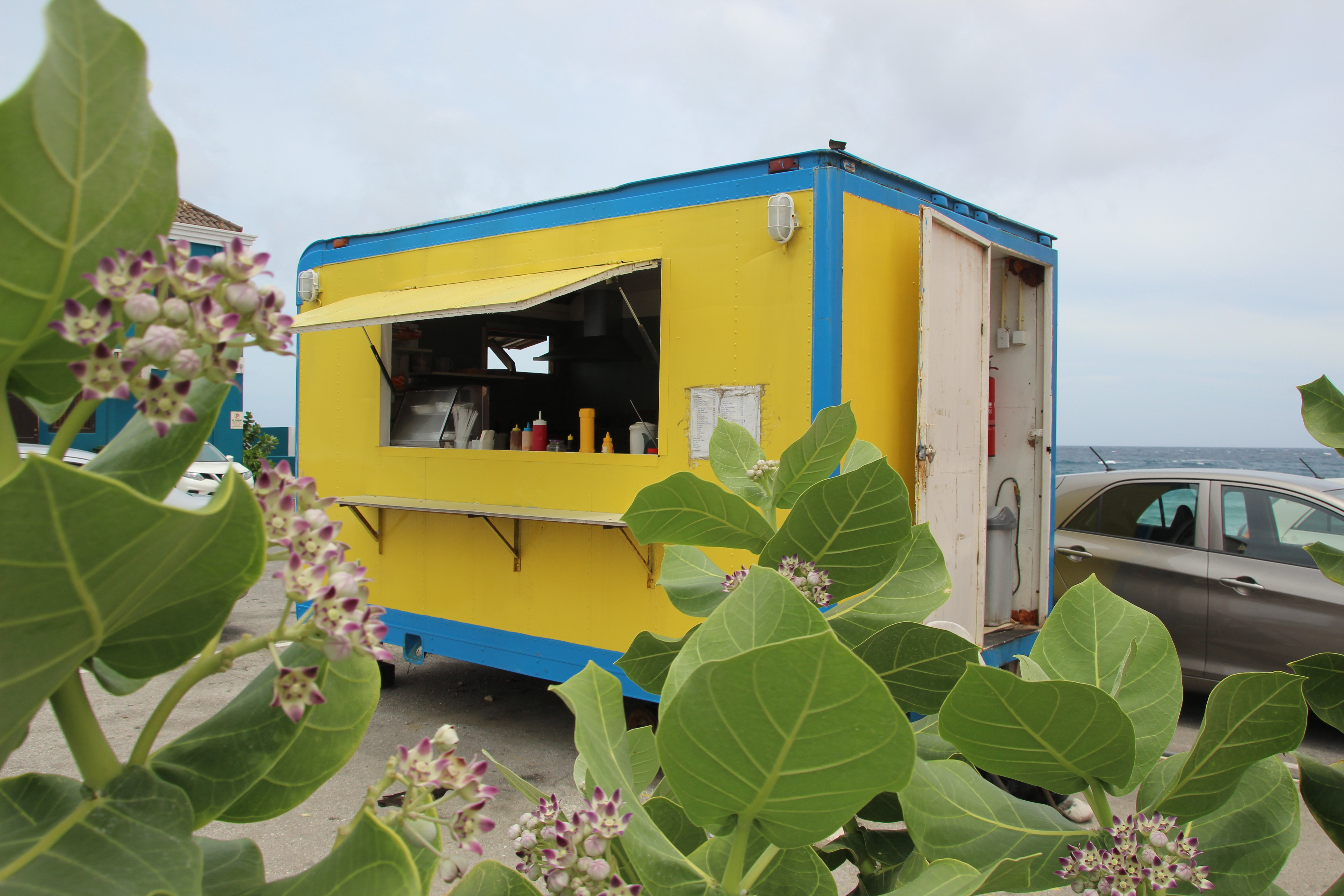 Food truck in the Pietermaai district of Willemstad, Curaçao. Papiamentu: Trùk'i pan na Pietermaai, Willemstad, Kòrsou.